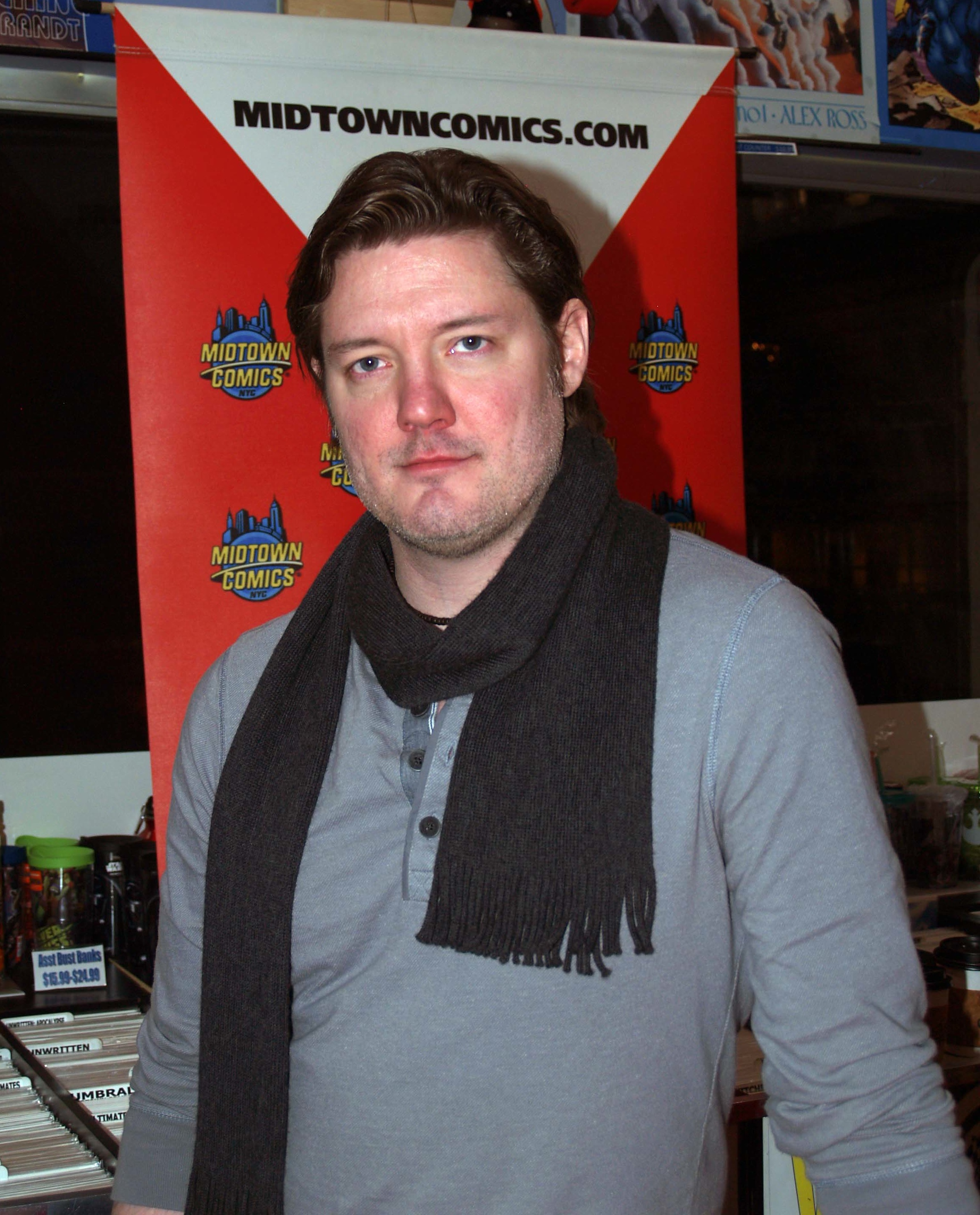 Comics artist John Cassaday at a January 16, 2015 signing for Star Wars #1 at Midtown Comics Downtown in Manhattan. The publication of the book represented the first Star Wars comic to be published by Marvel Comics since 1987, following the acquisition of Marvel by Disney in 2009. This photo was created by Luigi Novi. It is not in the public domain, and use of this file outside of the licensing terms is a copyright violation.